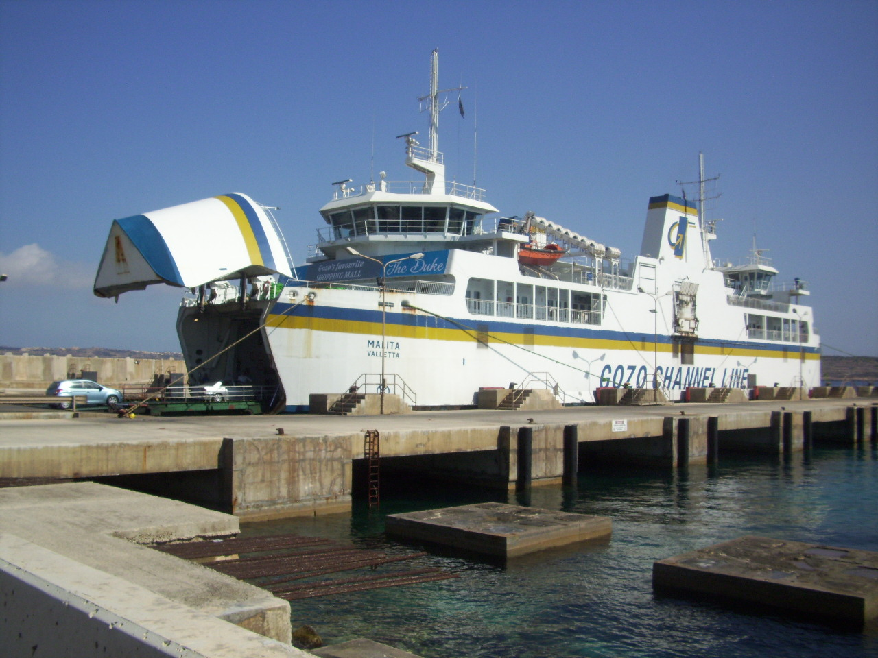 The ship of Gozo